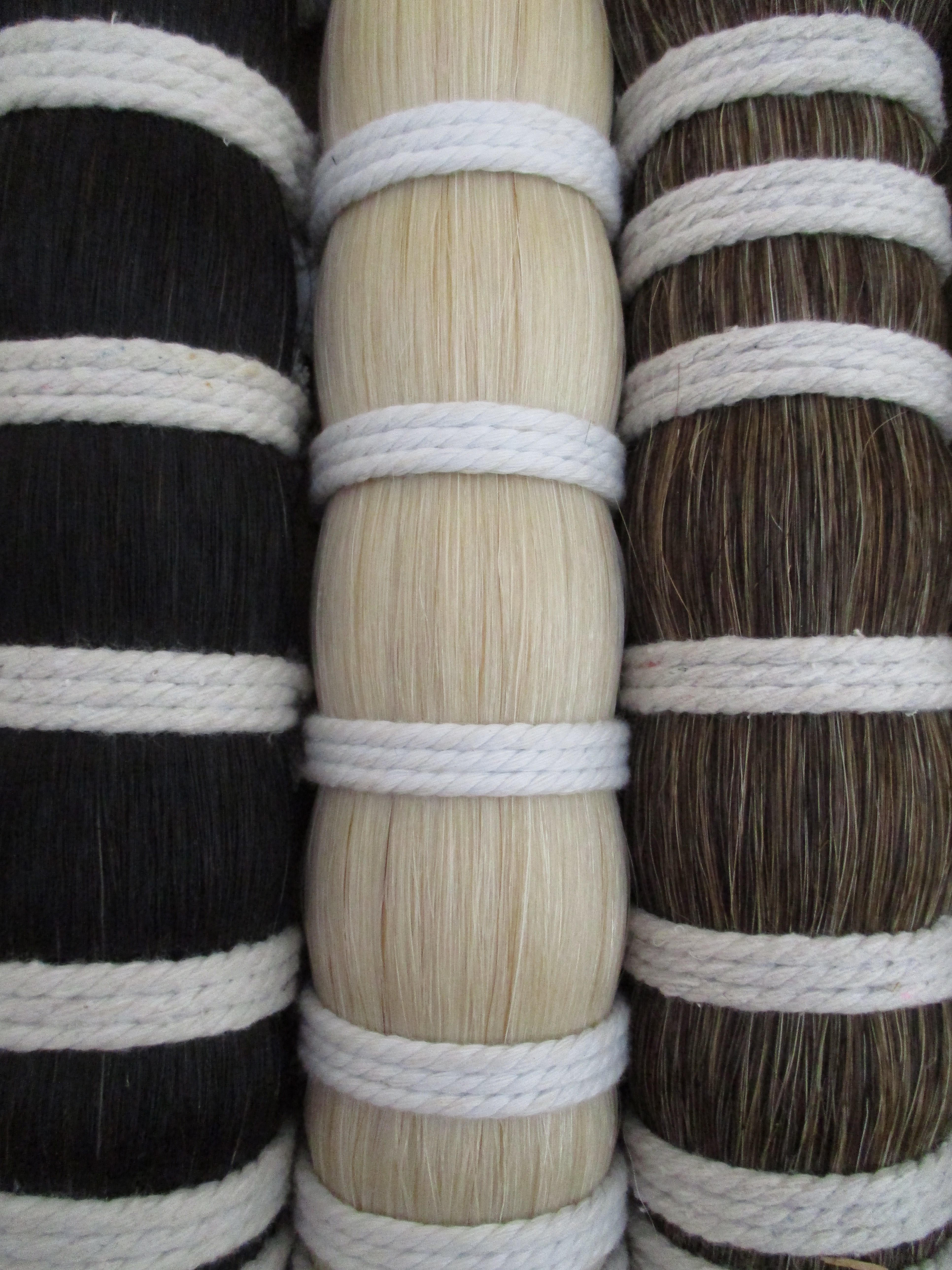 Bundels of horse hair, black, white and mixed, used for brushes and brooms